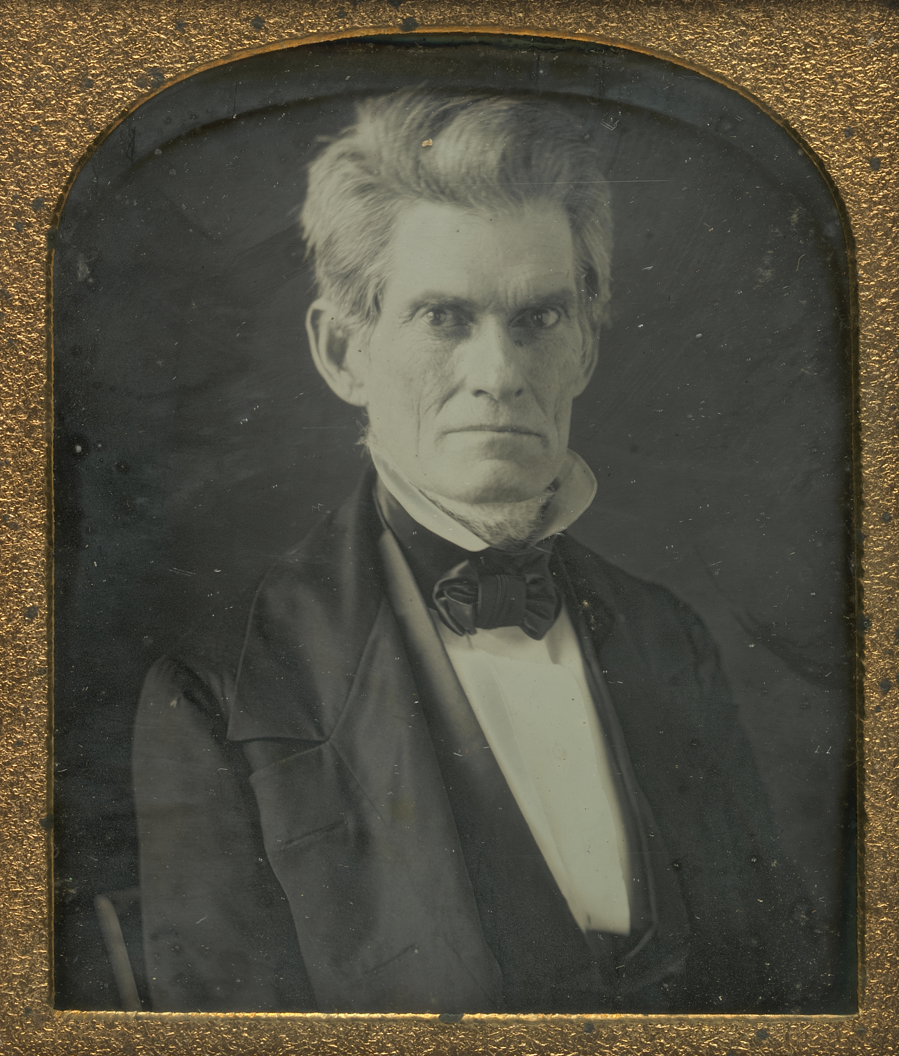 English